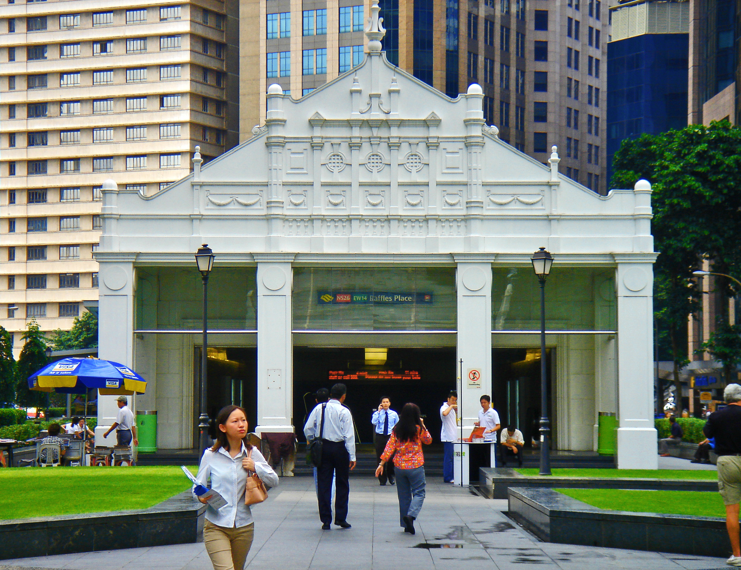 Entrance to Raffles Place MRT Station (enhanced from Mailer_diablo's collection)